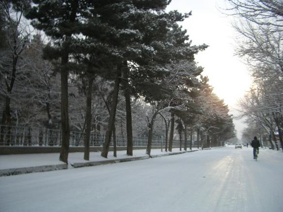 A street covered with snow in the Shar-e Noe Park area of Kabul City.